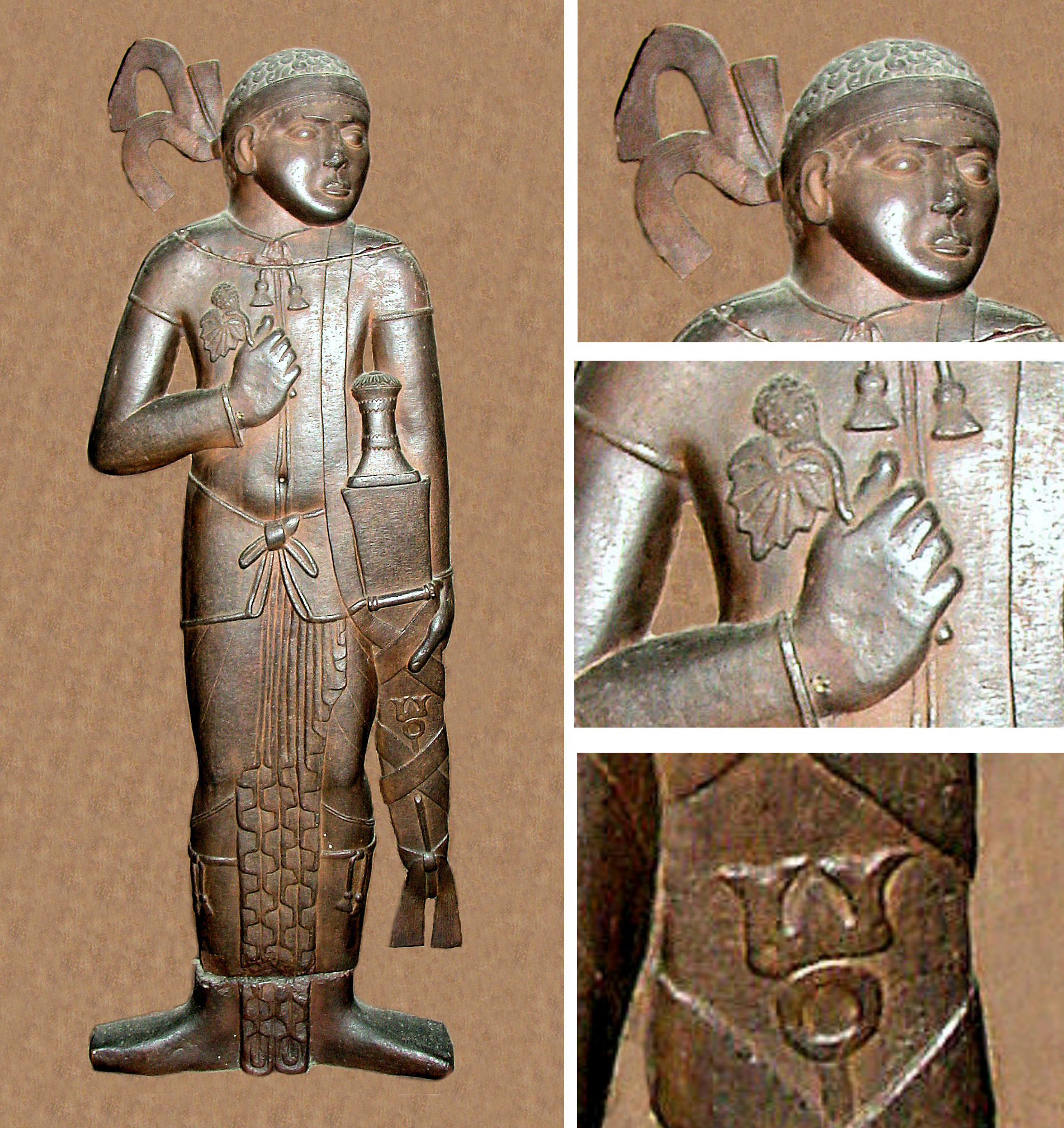 Bharhut Stupa Yavana symbolism